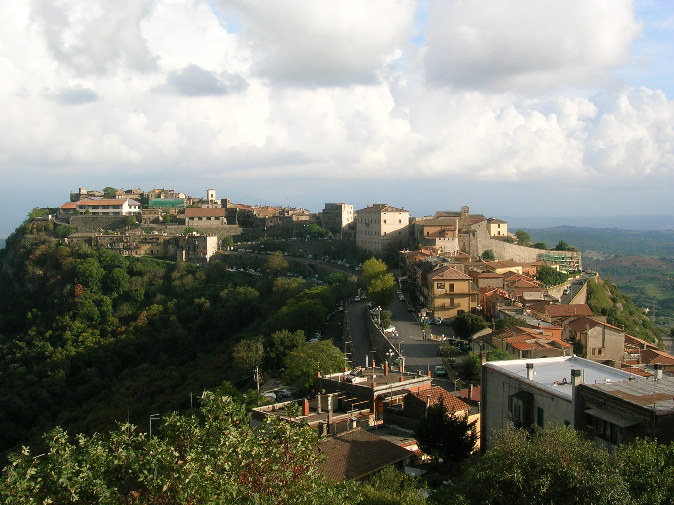 View of the town of Sant'Oreste (province of Rome, Lazio, Italy)